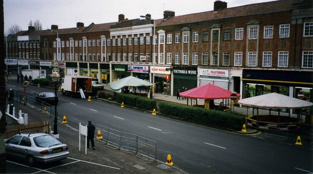 Field End Road, Eastcote I took this picture from my office window at Conex House.